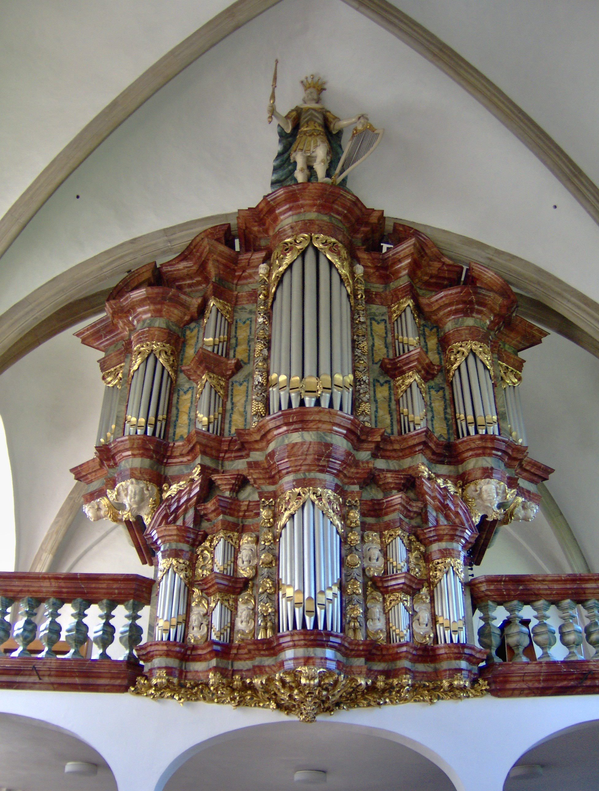 Interior of the catholic Sankt Franziskuskirche in Zwillbrock near Vreden, North Rhine-Westphalia, Germany. Church organ with a statue of King David on top of it.